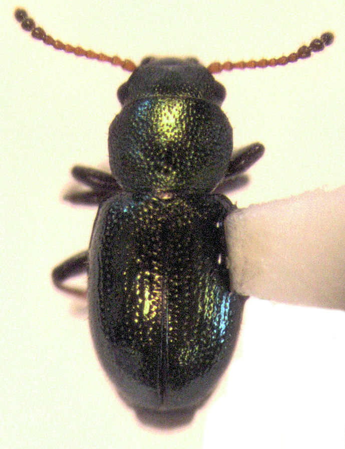 adult Antarcticodomus n.sp., length about 2.3 mm